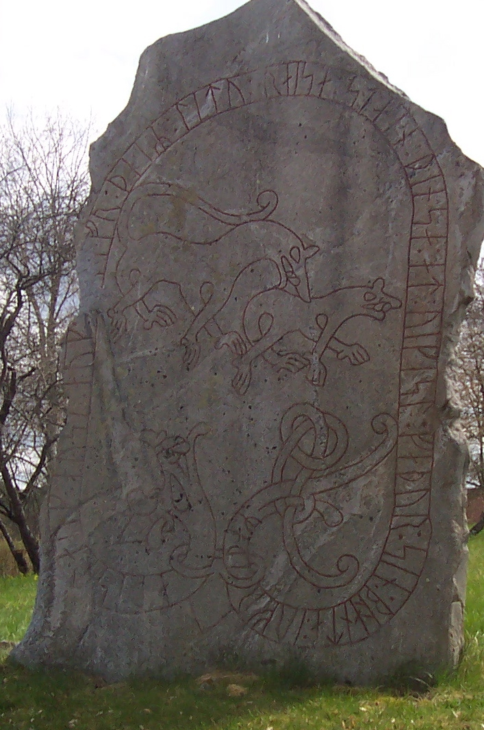 Runestone U 35 in Ekerö municipality, located on Färingsö, close to Svartsjö castle. 3 meters tall and 2 meters wide carved on thin granite.[1] The stone shows two animals and a runic inscription. Text - Old Norse : Aðisl ok As[l]/Ôs[l] ok [Ola]fR þæiR letu ræisa stæin þennsa at Vigisl, faður sinn, boanda ÆrnfriðaR. English translation: Adils and Ösel(?) and Olov(?) they let raise this stone after Vigisl, their father, husband of Ärnfrids.